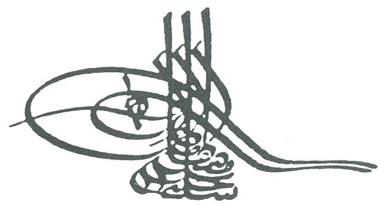 Tughra (i.e., seal or signature) of Selim III, Sultan of the Ottoman Empire (1789-1807). An explanation of the different elements composing the tughra can be found here.